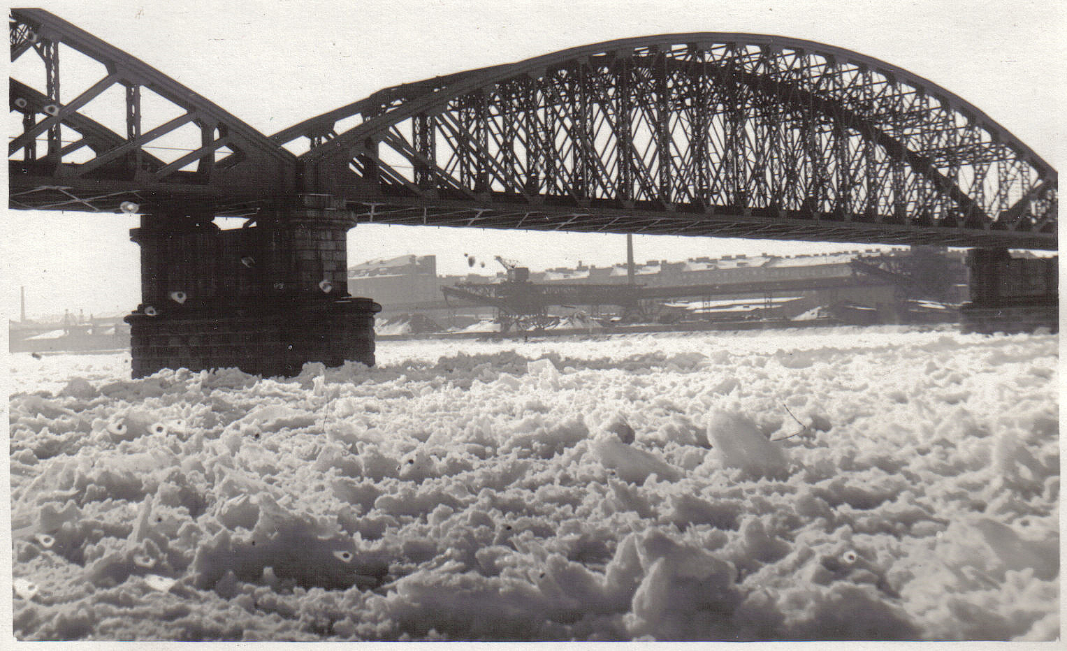 Ice dammed up on Danube river near Nordbahnbrücke, Vienna, mid-February 1929